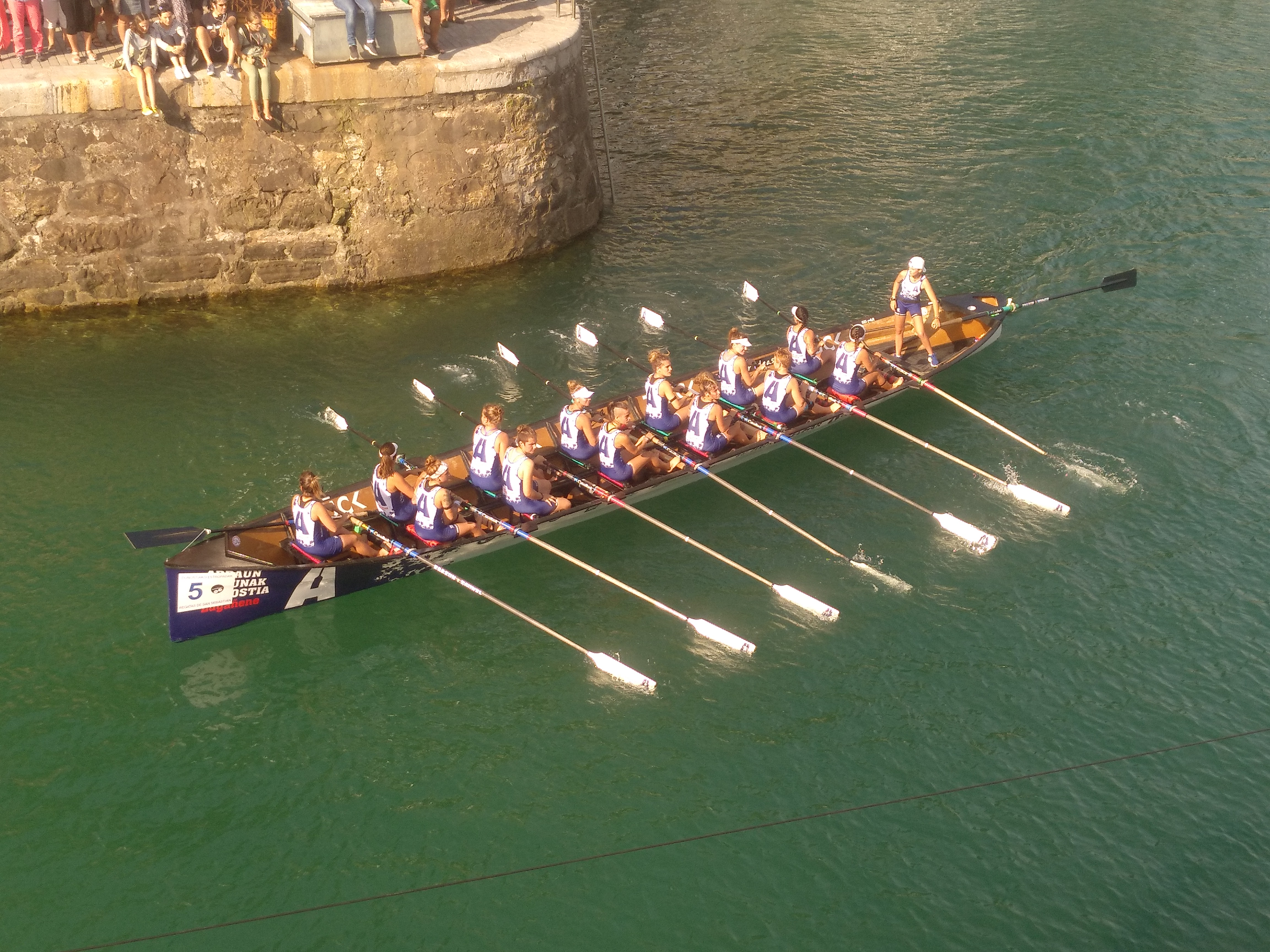 Arraun Lagunak, women, Flag of La Concha, 2018